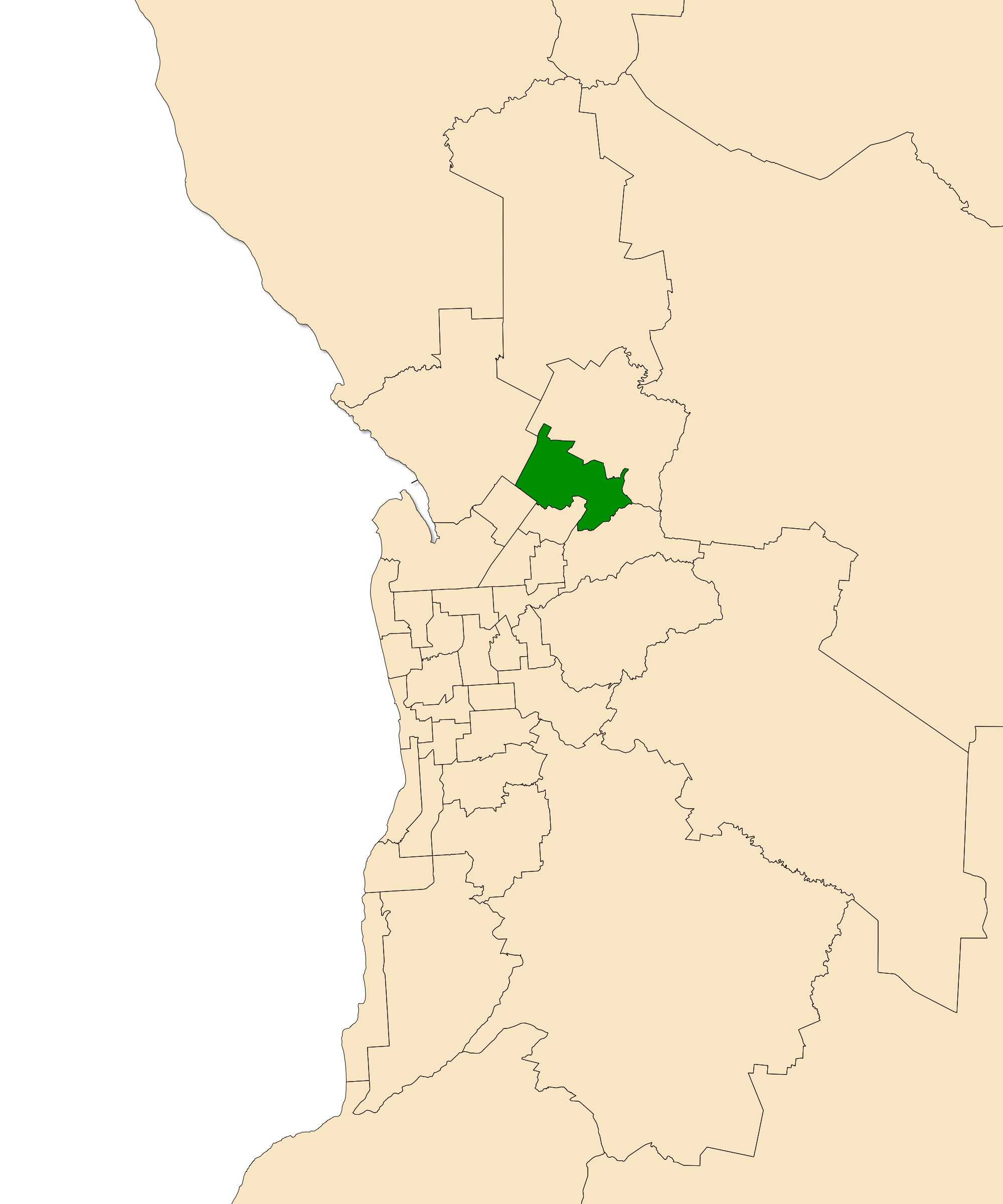 The South Australian electoral district of Little Para, shown dark green in the Greater Adelaide area. Map derived from data at South Australia Department of Planning, Transport and Infrastructure, licensed under a Creative Commons Attribution 3.0 Australia Licence.